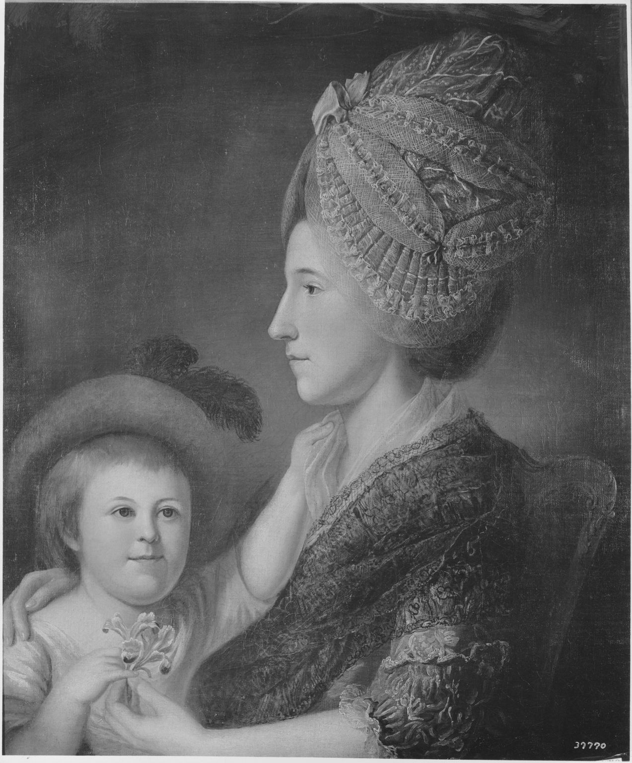 Mrs. Thomas Willing (Ann McCall) and Her Son William Shippen Willing. Author/Artist:Peale, Charles Willson, 1741-1827 Creation Date:1780; c.1781-1782 Description:Graphic reproduction(s) with documentation of a painting. 28 1/2 x 24 1/2 in. (sight). 72.4 x 62.2 cm. oil on canvas.